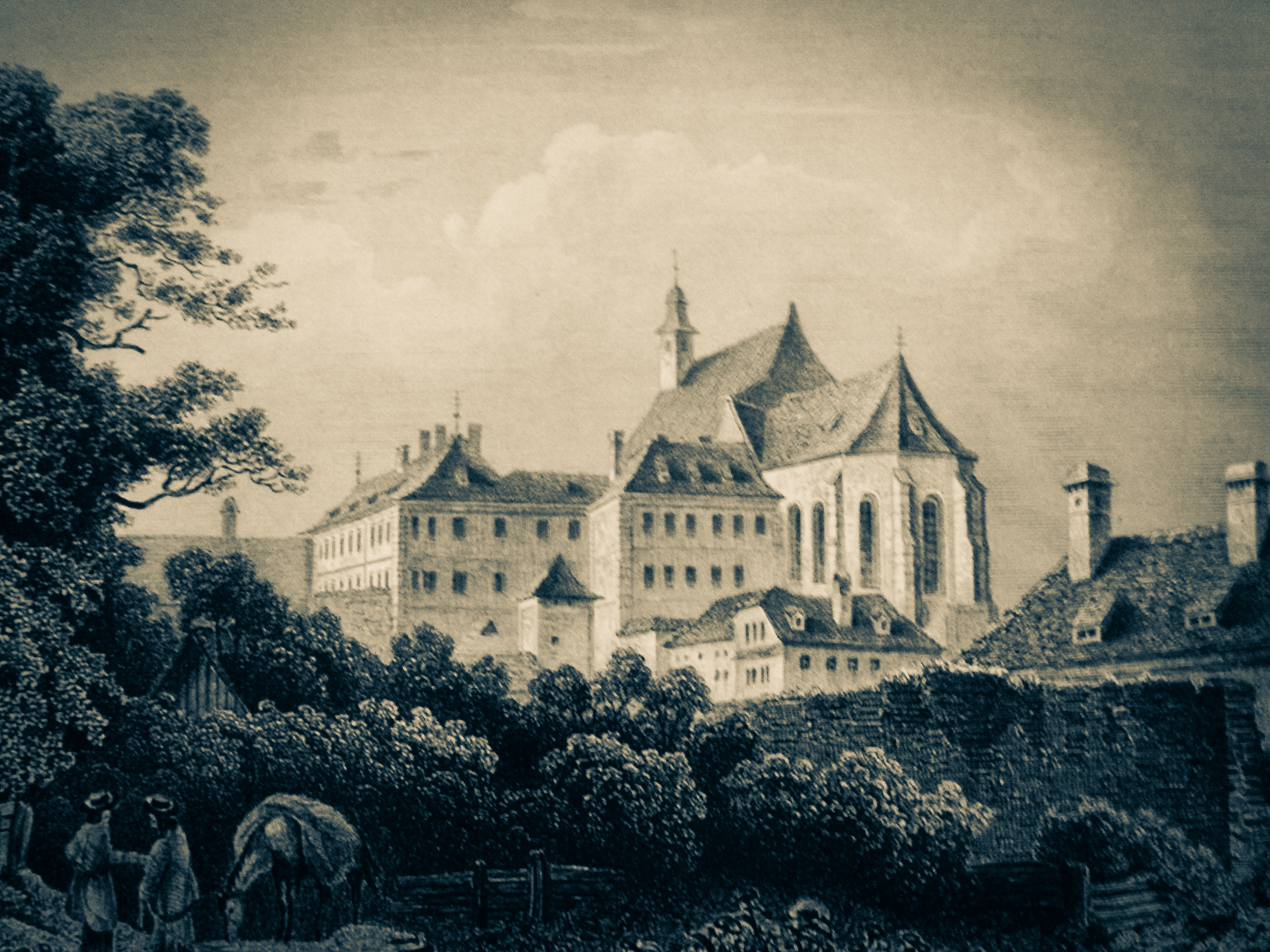 Biserica si manastirea Ursulinelor din Sibiu by Ludwig Rohbock